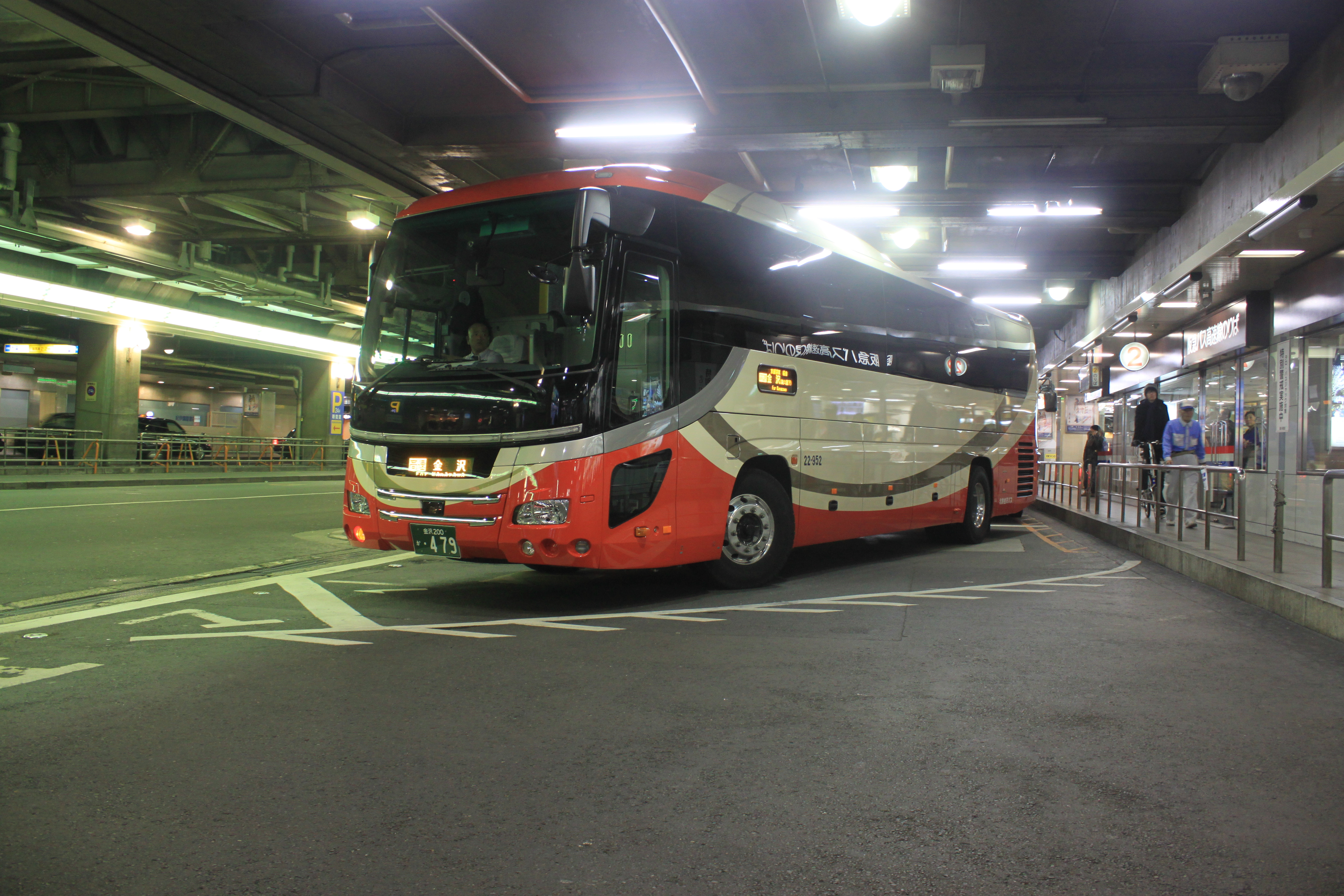 Hokutetsu Kanazawa Chuou Bus Kanazawa Kenrokuenn Osaka